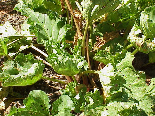 Species: Rheum rhabarbarum Family: Polygonaceae Image No. 1